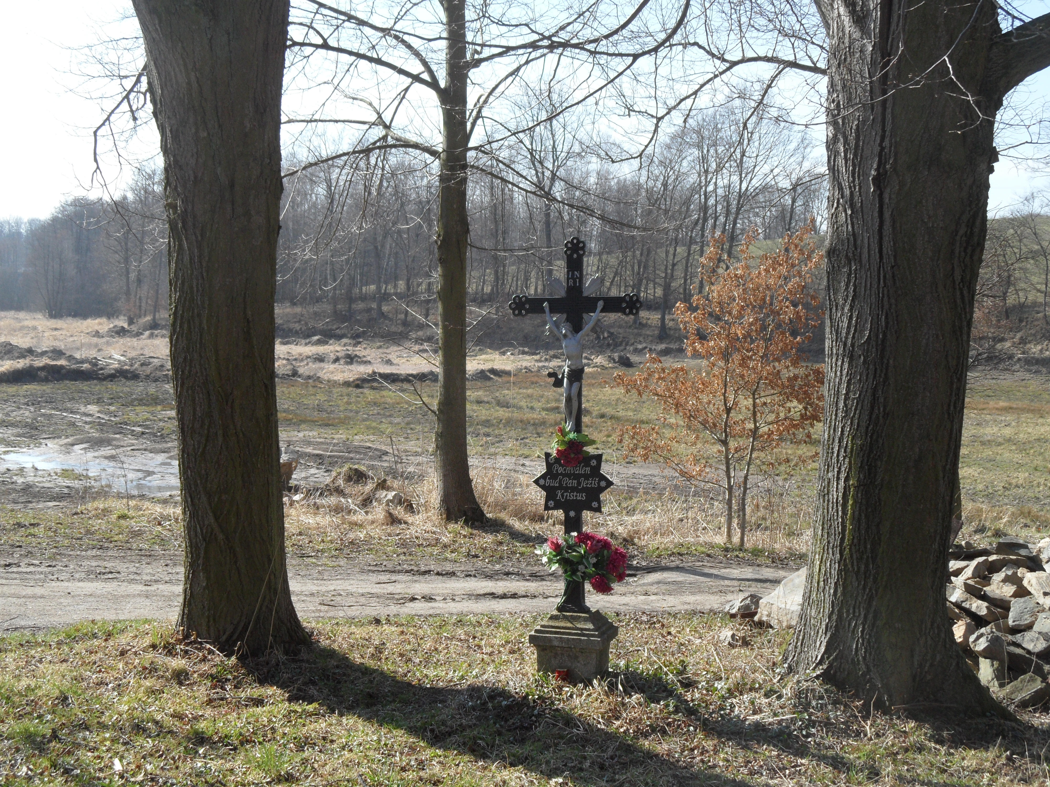 Plhov (Červené Janovice) H. Crucifix between Trees. Kutná Hora District, the Czech Republic.